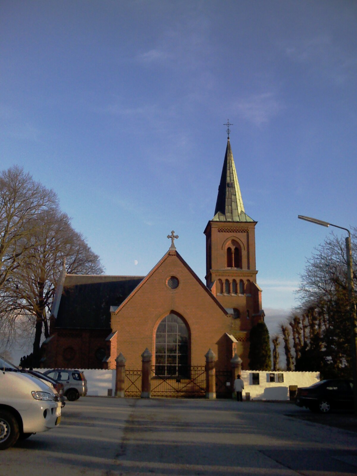 Vinderød Church. View from West.